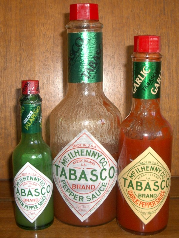 3 types of tabasco sauce